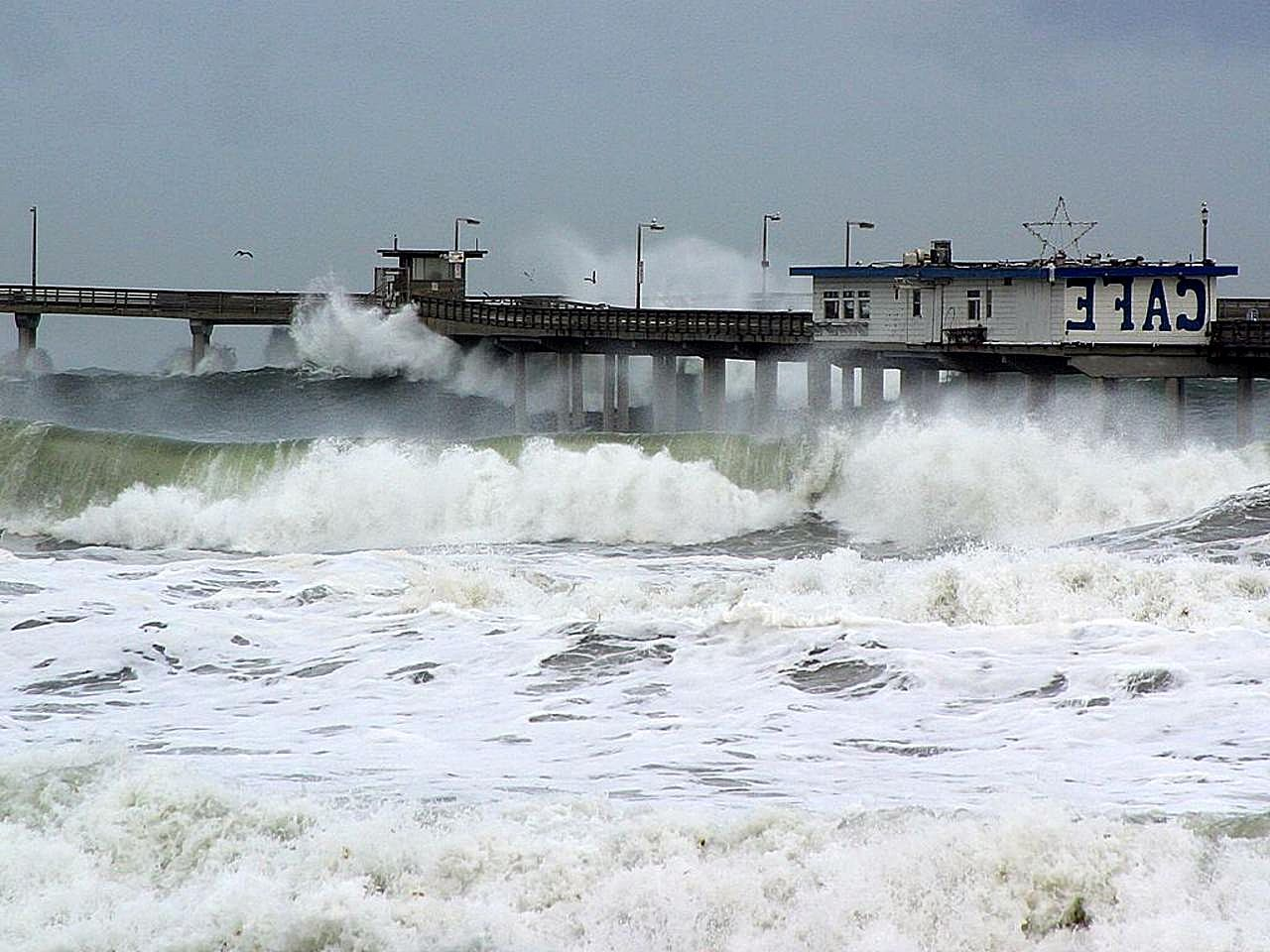 Image title: El nino waves piers ocean seagulls cafes Image from Public domain images website